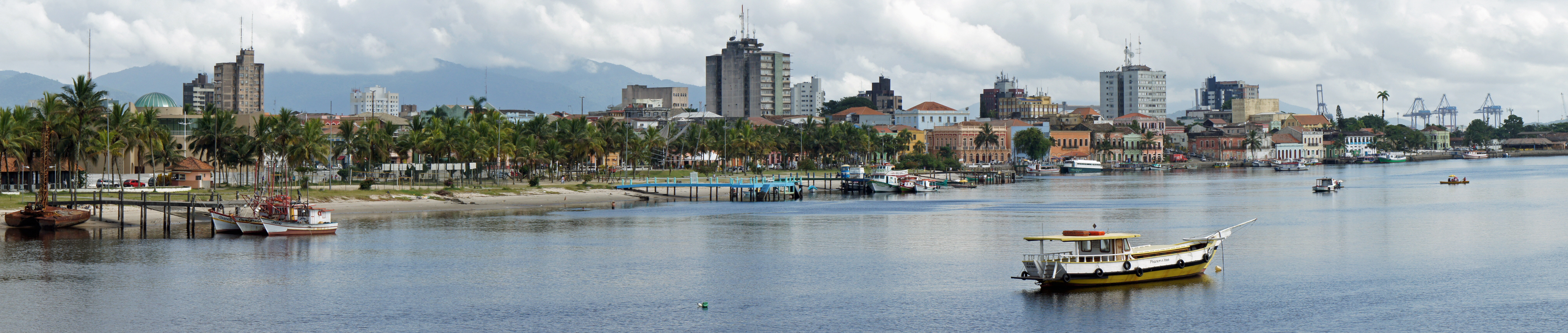 Old downtown Paranaguá waterfront. Parana, Brazil